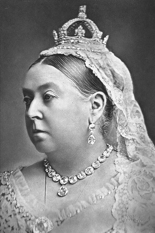 Queen Victoria wearing the Coronation Necklace and Earrings, small-Diamond Crown and Koh-i-Noor brooch.